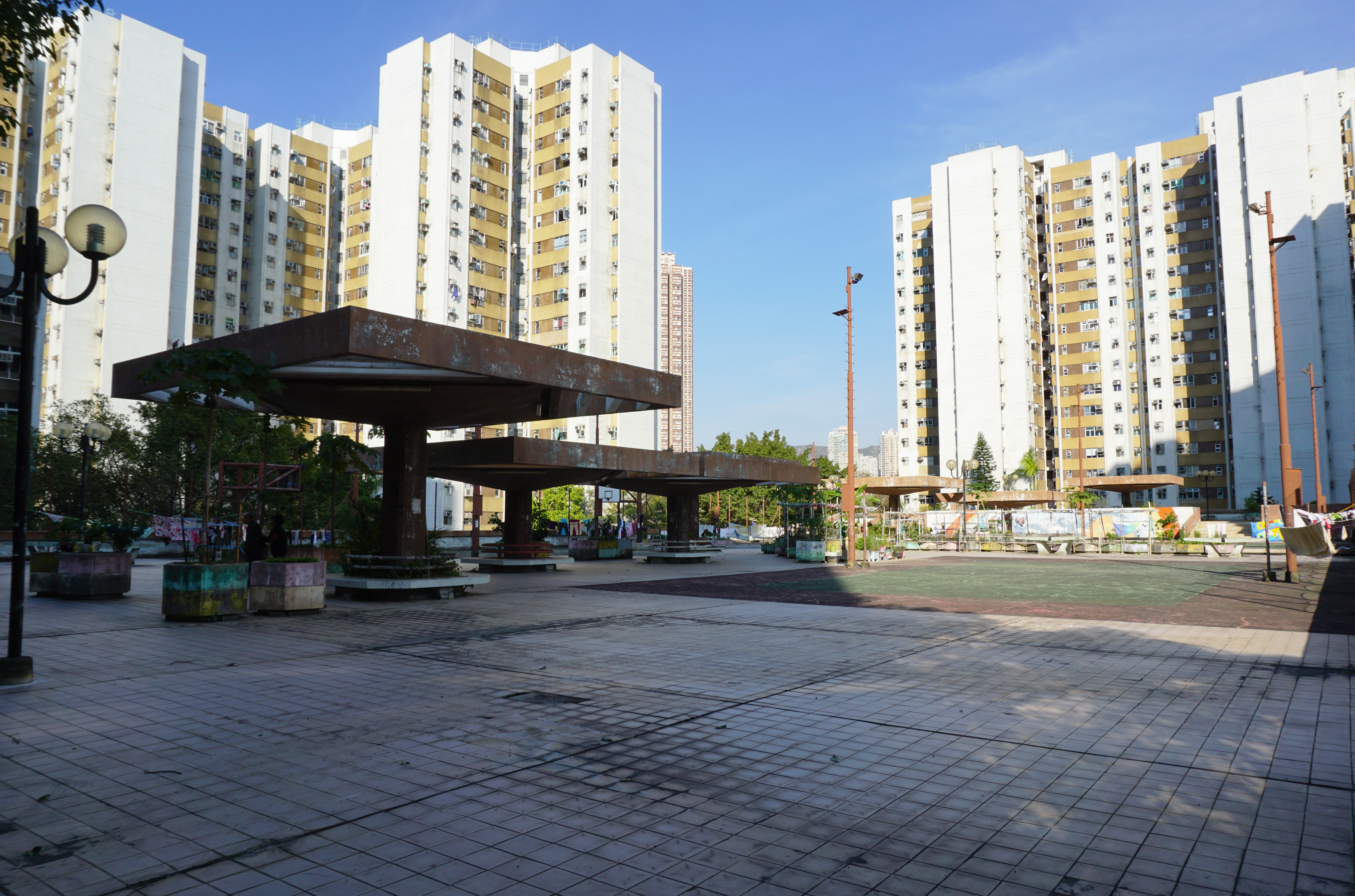 Siu Shan Court in Tuen Mun, Hong Kong.